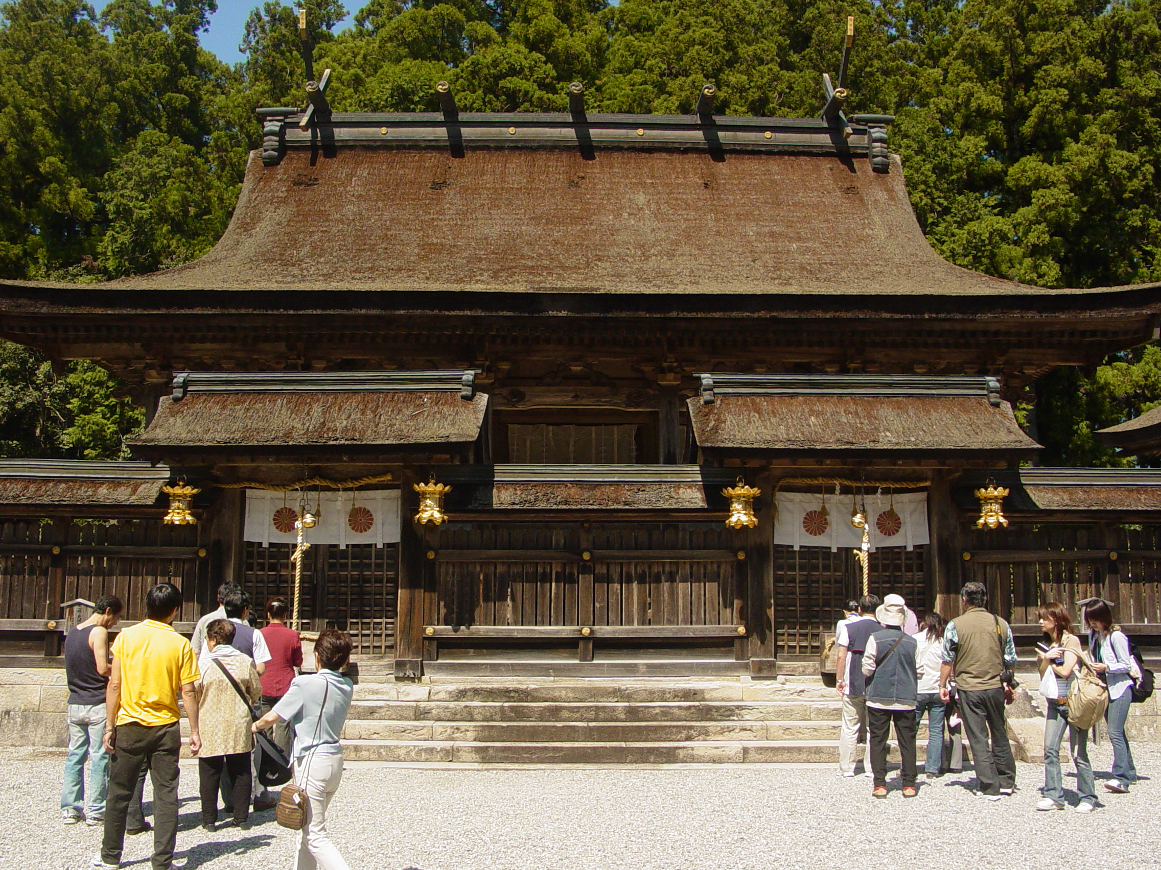 Kumano Hongu-Taisha Shrine is the Head Shrine of over 3,000 Kumano-jinjas in Japan and is one of the Three Great Kumano Shrines. Hongutaisha was originally directly adjacent to the confluence of three rivers the Kumano, the Otonashi and the Iwata but after a large flood destroyed the shrine at the end of the 1800's it was relocated a few hundred meters away from the rivers ontop a large spur of one of the nearby mountains.